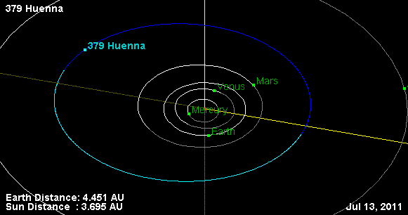 379 Huenna orbit, and his position on 13 July 2011 (NASA Orbit Viewer applet)